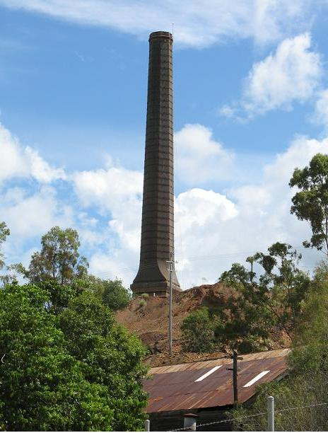 A picture of the mine stack in 2010 taken from the former mine car park by User:MMHistory.